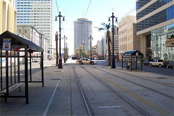 Canal Street in New Orleans in December of 2005. View from center of neutral ground, near Chartres Street, looking towards the river end of street.